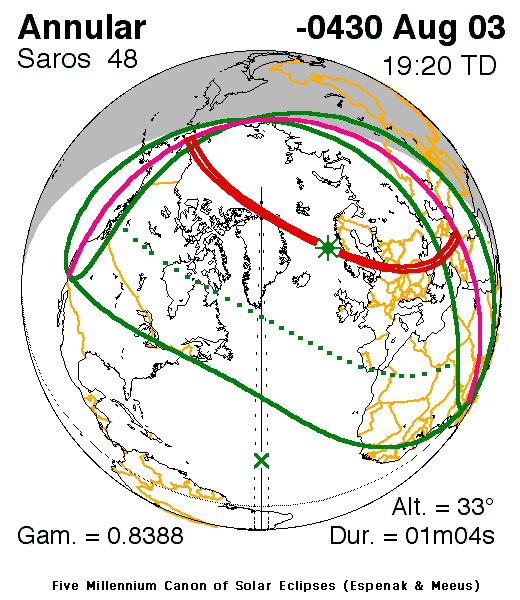 Eclipse Predictions by Fred Espenak, NASA/GSFC". Prediction for 03 August, 431BC (-430 in astronomical year)